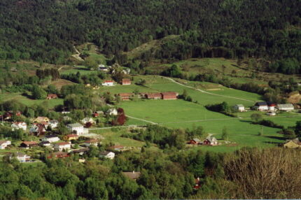 A small village in Norway, just outside Haugesund in the west cost. Own picture.